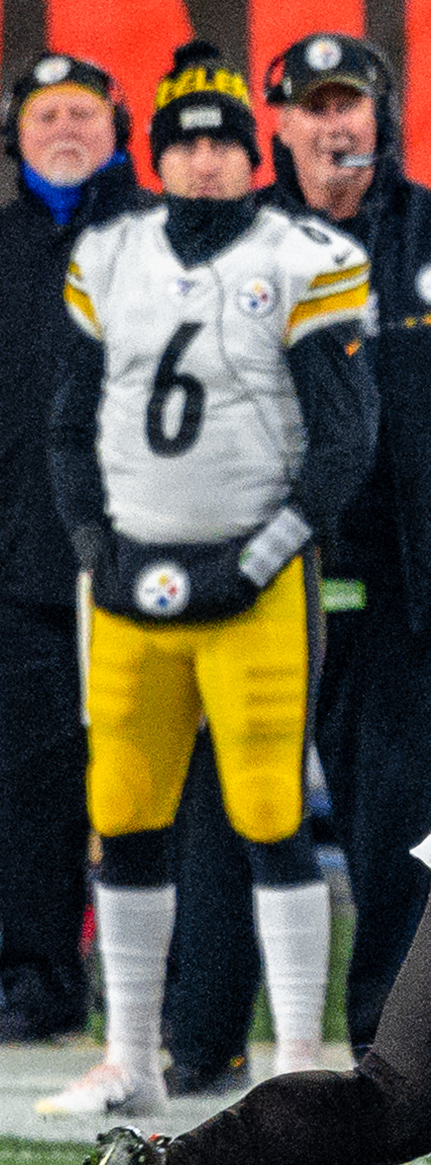 Steelers vs Browns 2019